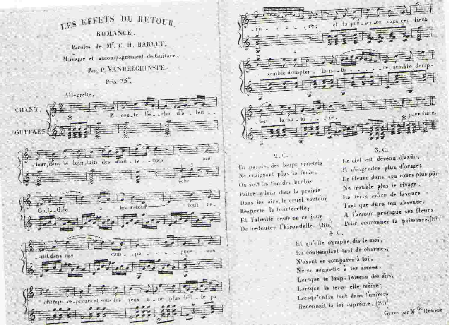 Romance, Les effets du retour, texte by C. Barlet, music by Pieter Vanderghinste, for voice and guitar, early 19th century song, Belgian or Dutch